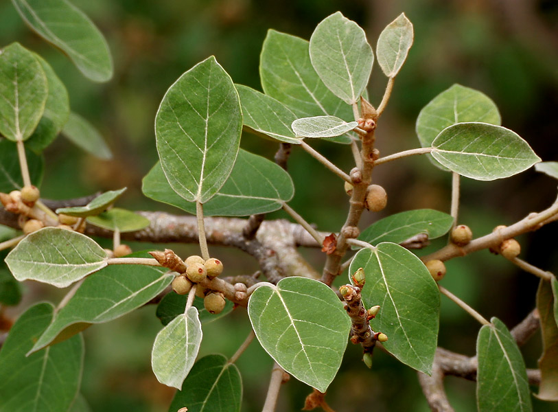 Kathpeepal Ficus mollis in Keesara, Rangareddy district, Andhra Pradesh, India.